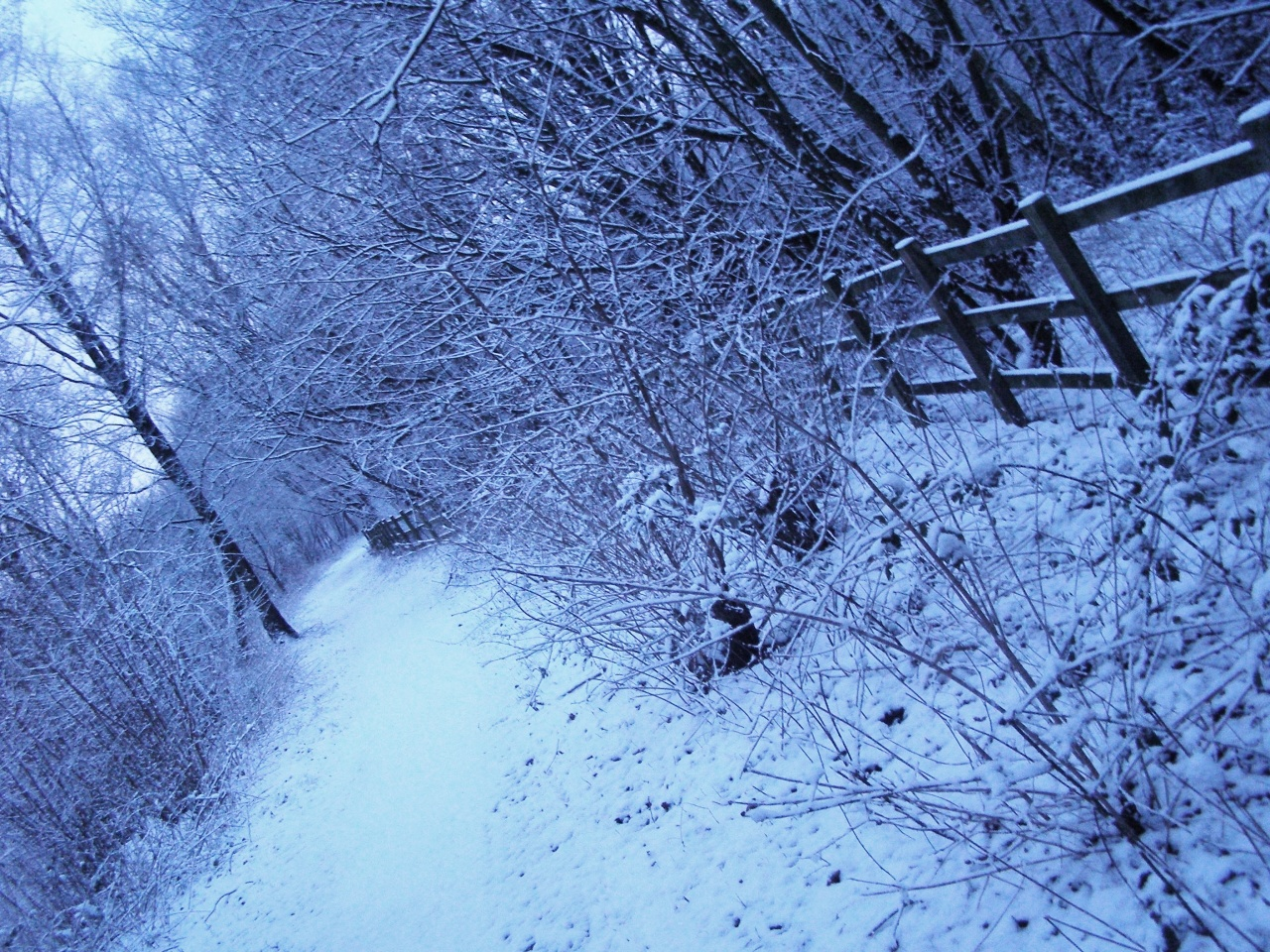 Over night we had our first snow of the year, about 2 to 3cm. I caught the 7:00am train to Farnborough North and walked along the Blackwater Valley Path through the woods to Frimley. I must have been the first person on that stretch of the path that morning: there were no footprints or cycle tracks in the snow.